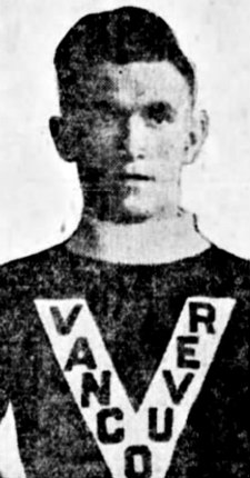 Canadian ice hockey player Frank Boucher with the Vancouver Maroons in 1922–23.